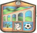 Escudo del Municipio de Leonardo Bravo, del cual Chichihualco es cabecera